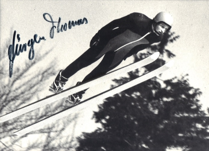 In the air